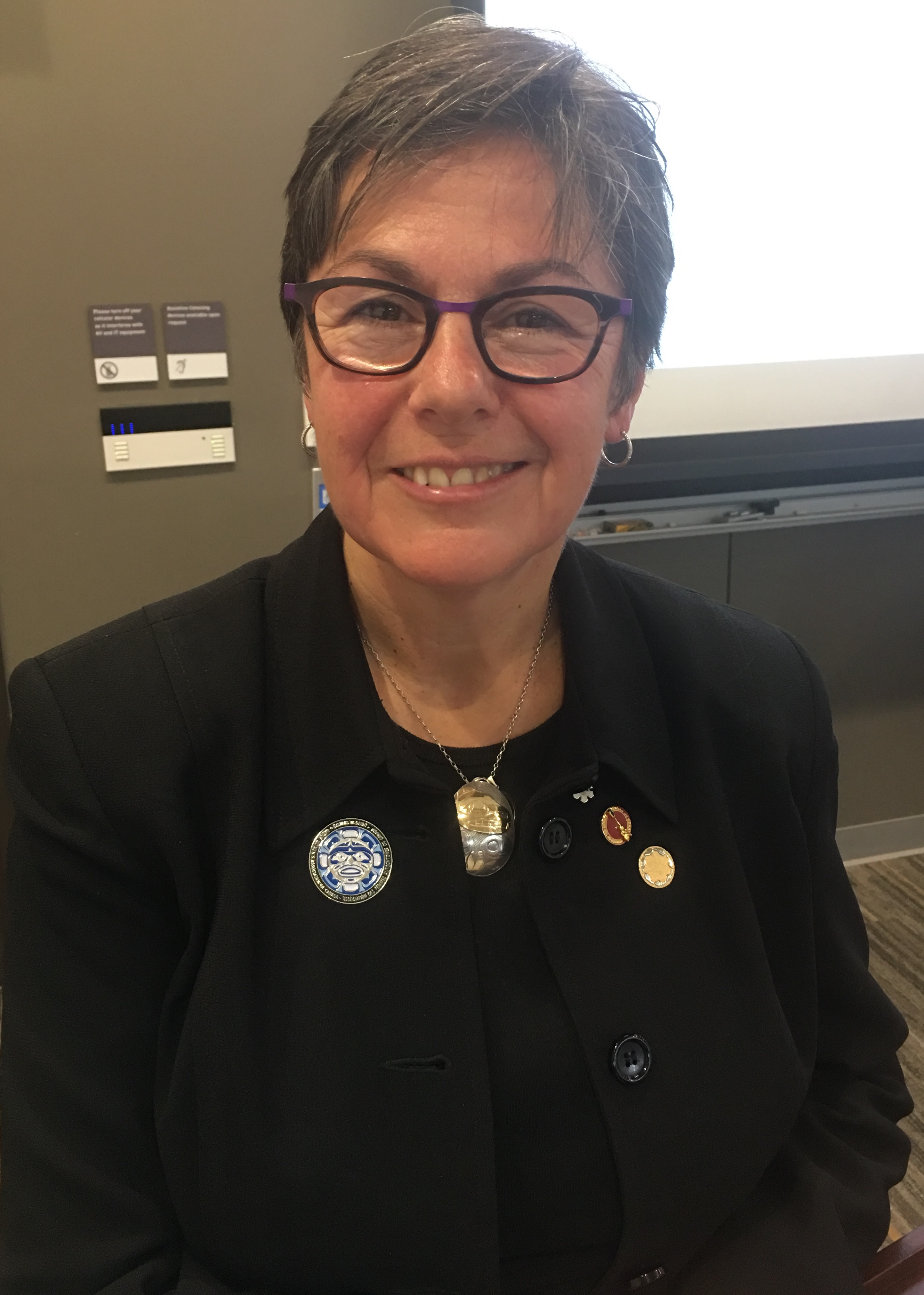 Senator Kim Pate, Canadian Senator and activist, in October 2017.